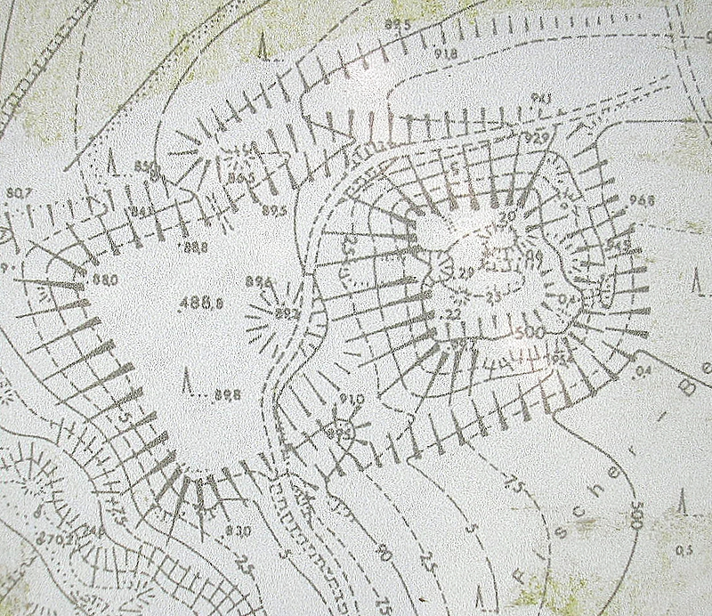 High Middle Ages Motte-and-bailey castle Schloesslesberg near Steinekirch (Zusmarshausen, Bavaria, Germany). Plan (Otto Schneider, 1973, Information board at the castle). Own photo, April 2008